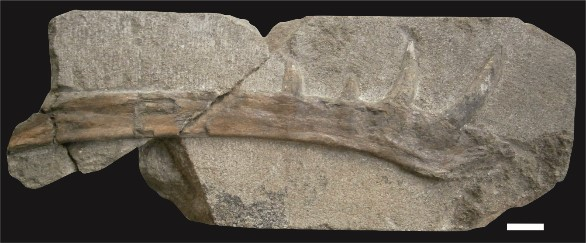 Personal photo of the holotype of Klobiodon rochei